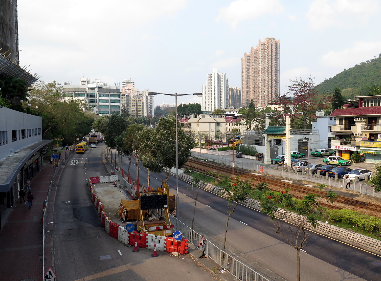 Castke Peak Road San Hui Section